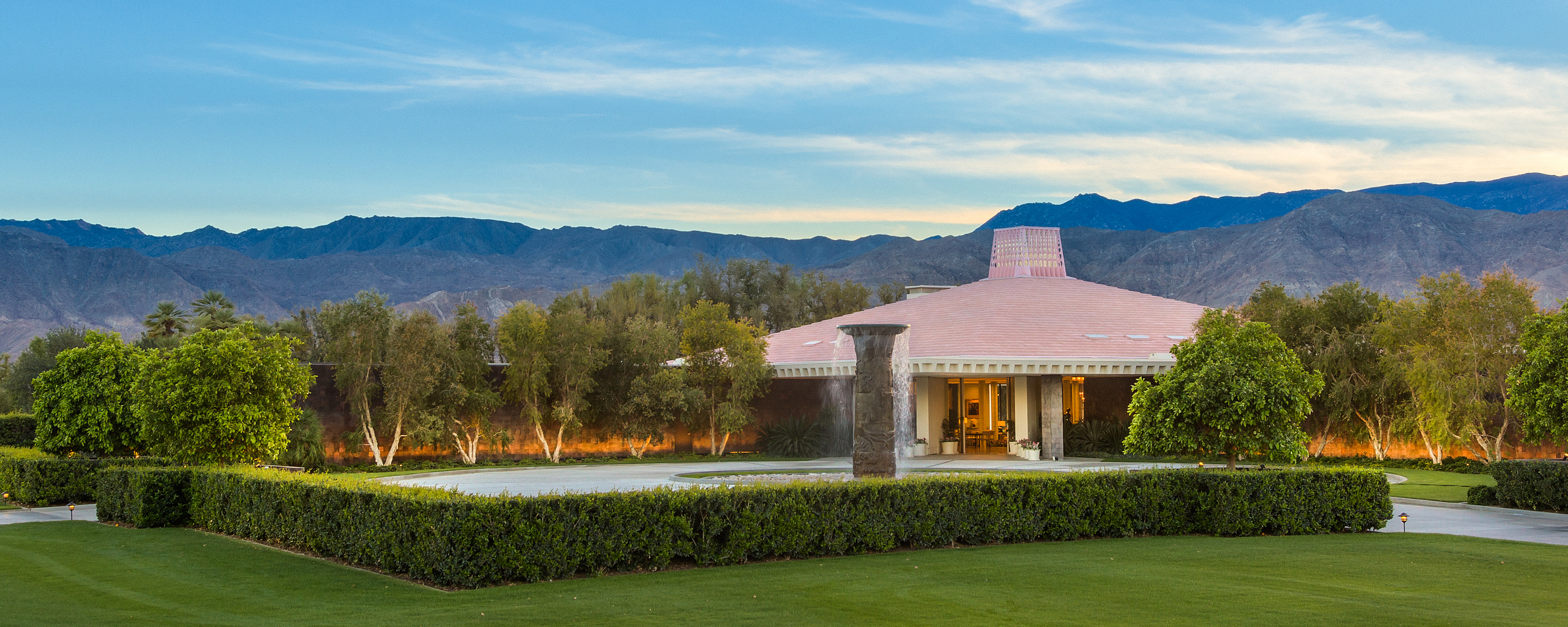 A columnar fountain designed and executed by the brothers José and Tomás Chávez Morado from Silao, Mexico.The Annenbergs saw the first execution at the National Museum of Anthropology in Mexico City and had the brothers make another for their California home.